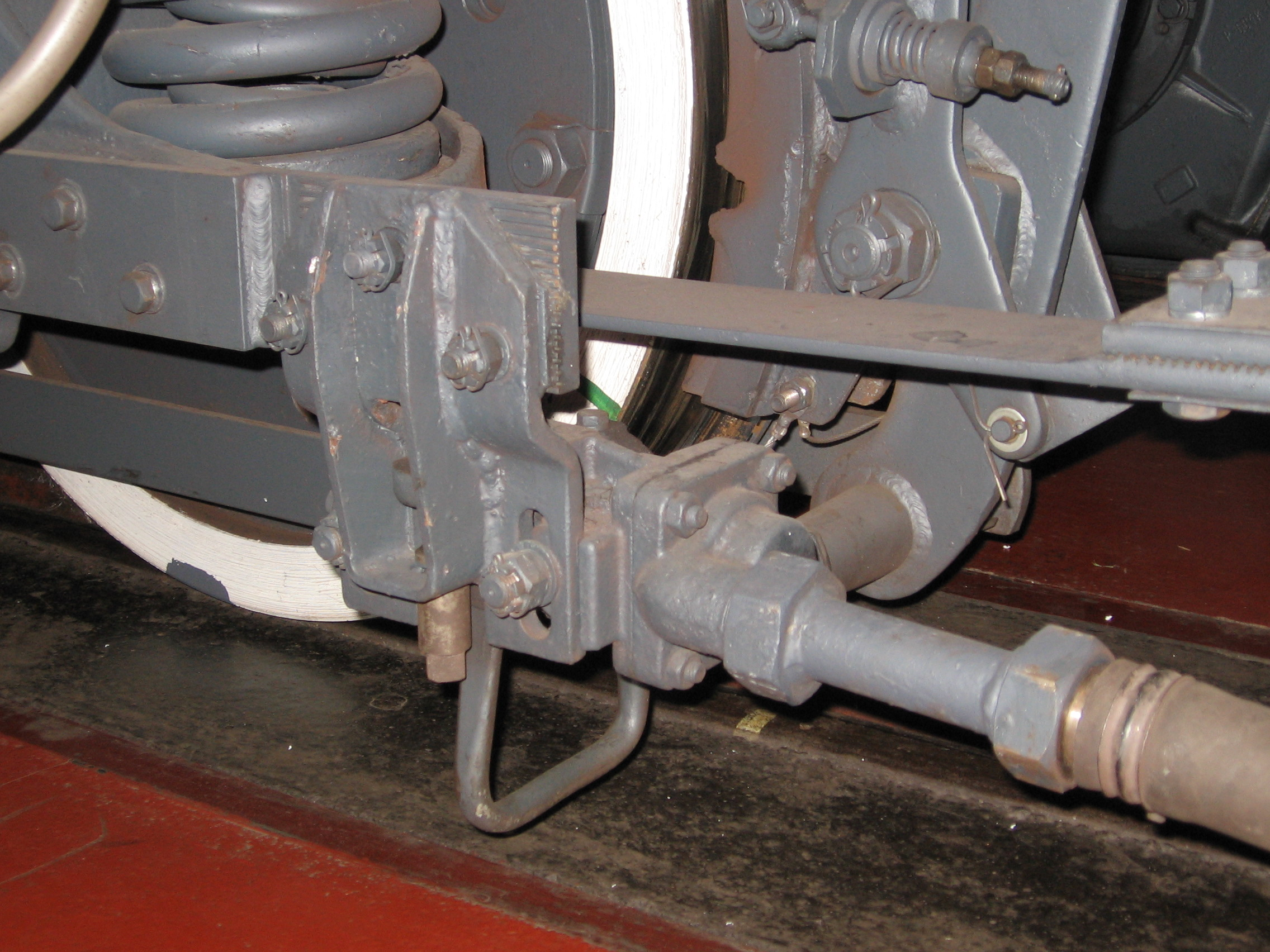 Etchs 1083 - autostop valve with lever